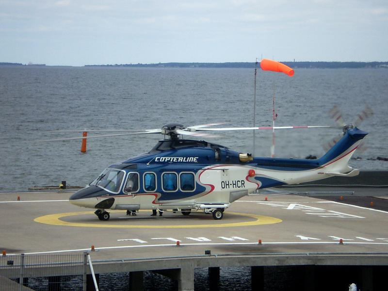 A Copterline passenger helicopter in Tallinn